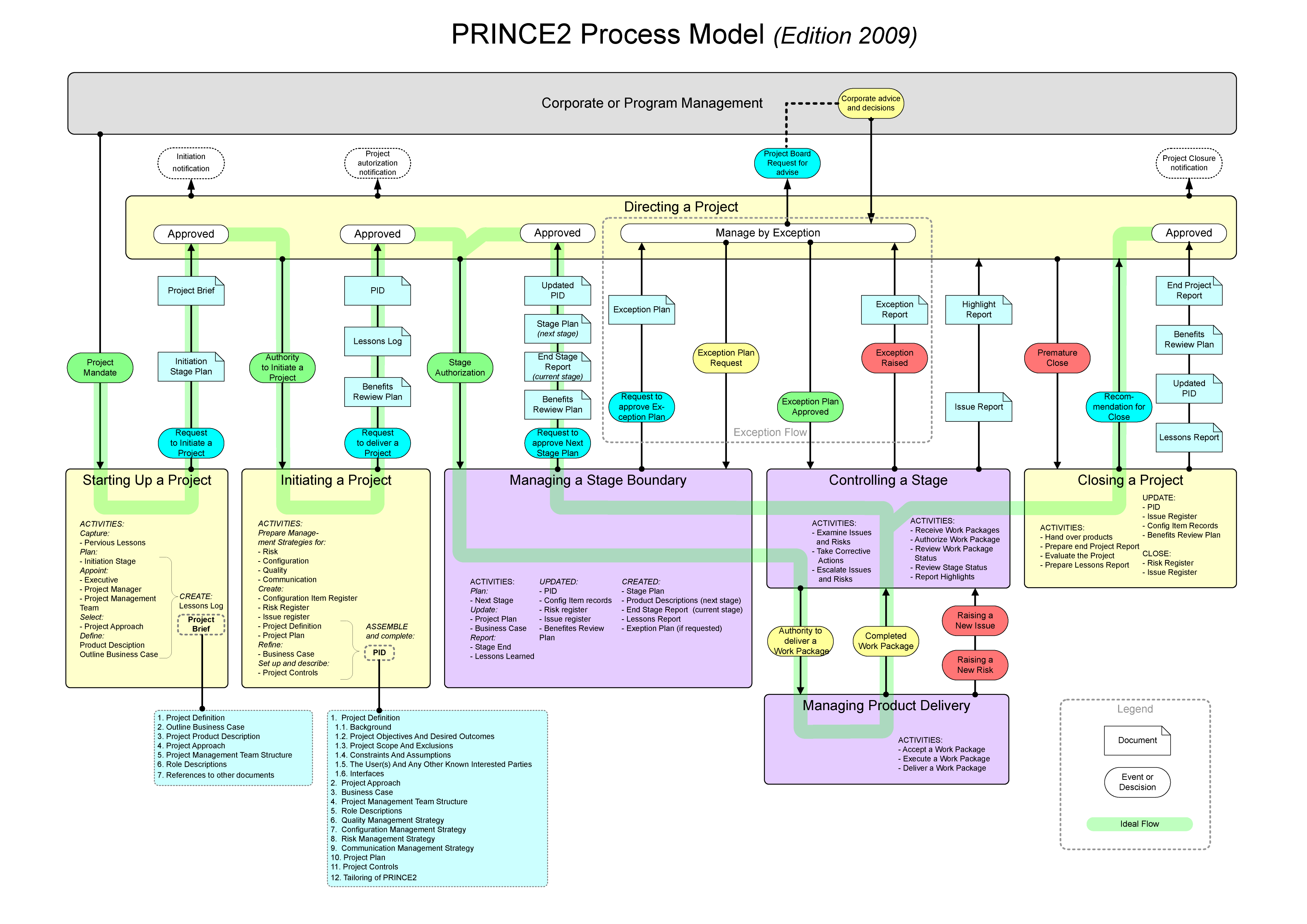 PRINCE2 (Edition 2009) Process Model